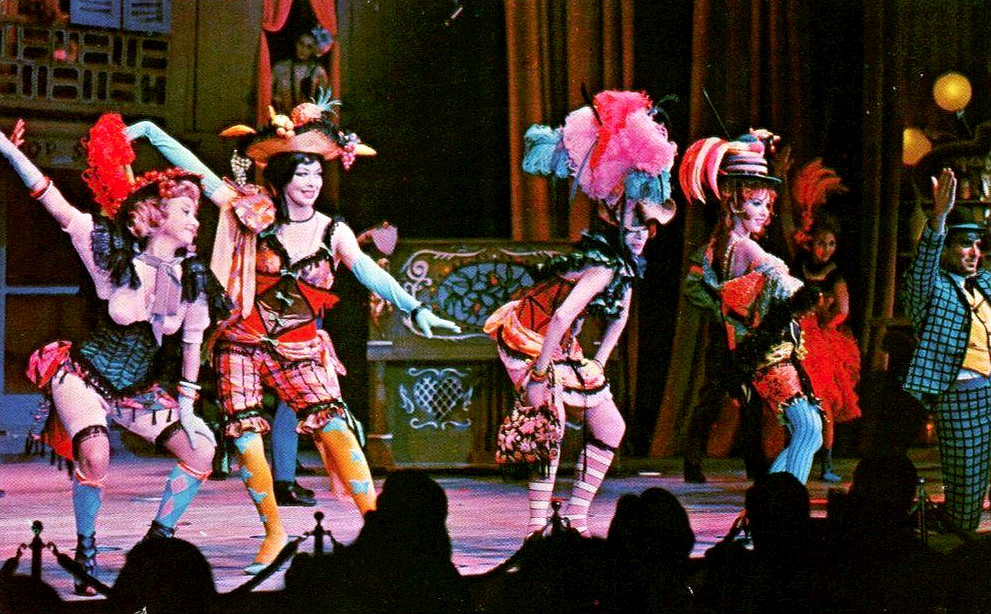 Photo of the Hello America Revue being presented in the Crystal Room at the Desert Inn in 1967.